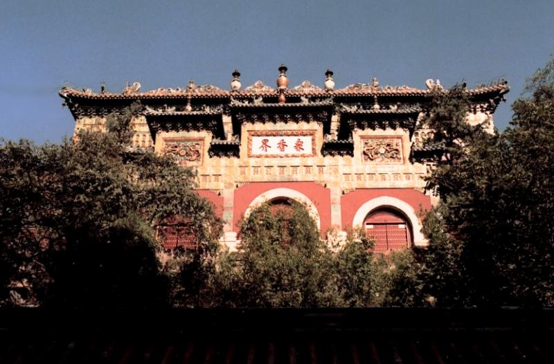 眾香界Zhong Xiang Jie in the Summer Palace